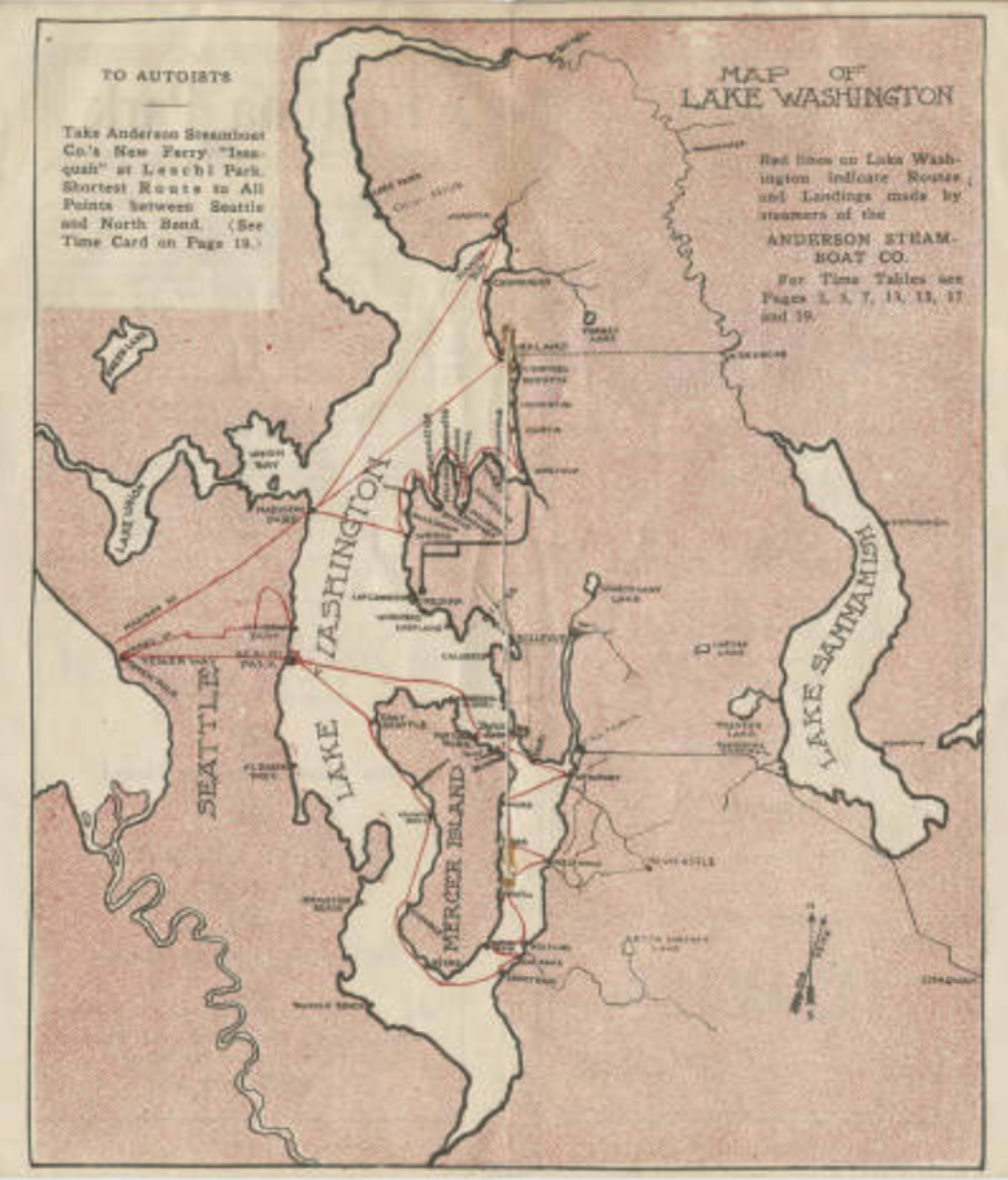 This is the route map for the Anderson Steamboat Company ferry fleet on Lake Washington. It is part of a multi-page company pamphlet with the schedule for Summer 1916. From the collection of MOHAI, ID# 1990.54.3